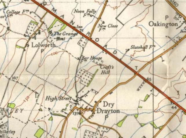 Site of the future village of Bar Hill, late 1940s.